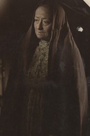 Antonia Volpe-actriz